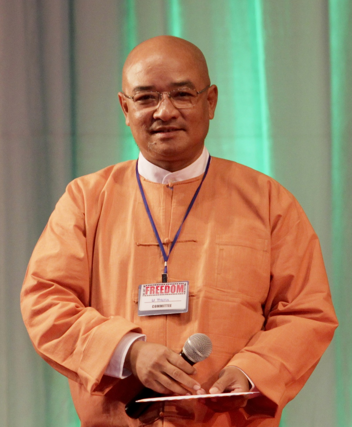 Zaganar gives speech to the audience during Freedom Film Festival in Yangon, Myanmar on 1 January 2012. မြန်မာဘာသာ: ဇာဂနာ ၊ မောင်သူရ